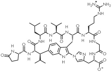 Chemical structure of moroidin, the neurotoxic bicyclic peptide secreted by dendrocnide moroides.